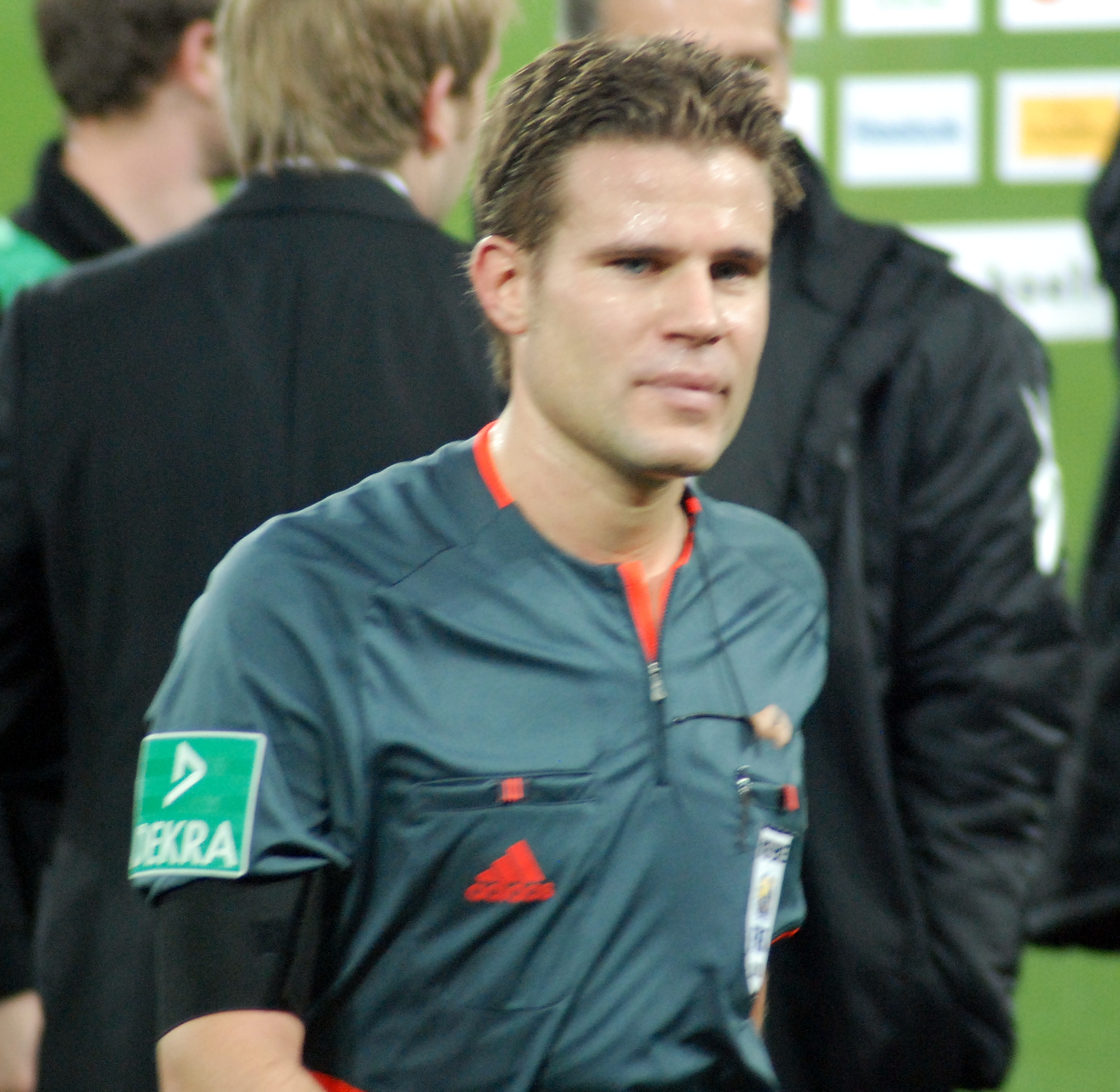 The German FIFA-referee Dr. Felix Brych after the game 1. FC Köln vs. TSG Hoffenheim in 2009